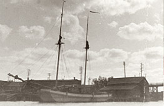 The Tennie and Laura, a scow-schooner, sunk in 1903 off the shore of Port Washington, Wisconsin. The wreck site is a Registered Historic Place.